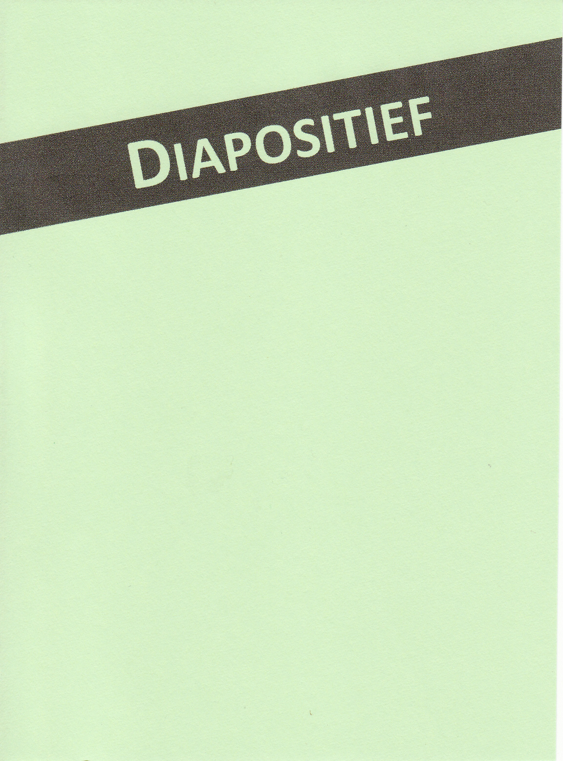 printing technique (example of white-letter printing)